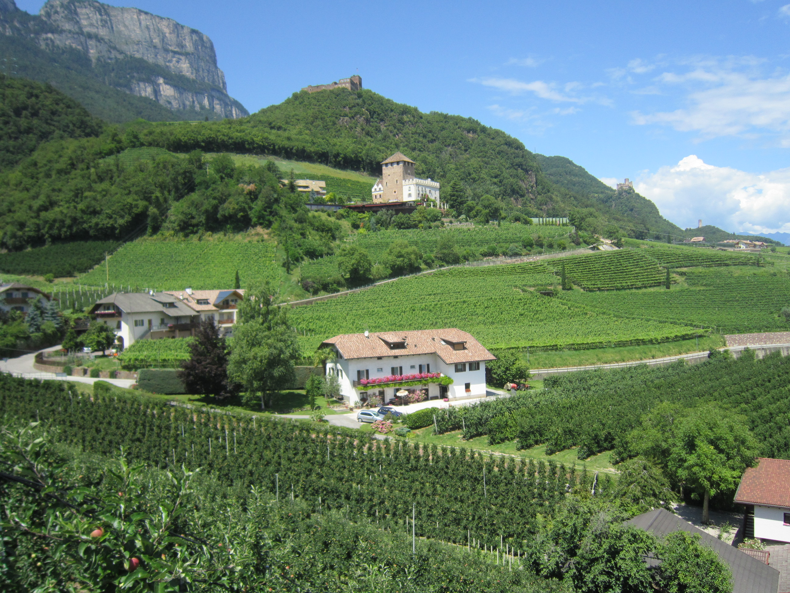 Three-castle-view across Missian/Missiano (Eppan/Appiano) in South Tyrol. On the left: Boymont Castle; in the middle: Korb Castle; on the right: Hocheppan Castle